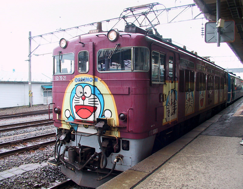 JR ED79 special livery locomotive for use in pulling the rapid train Kaikyo in summer time during 1998 to 2002. @ Aomori Station, Aomori, Japan